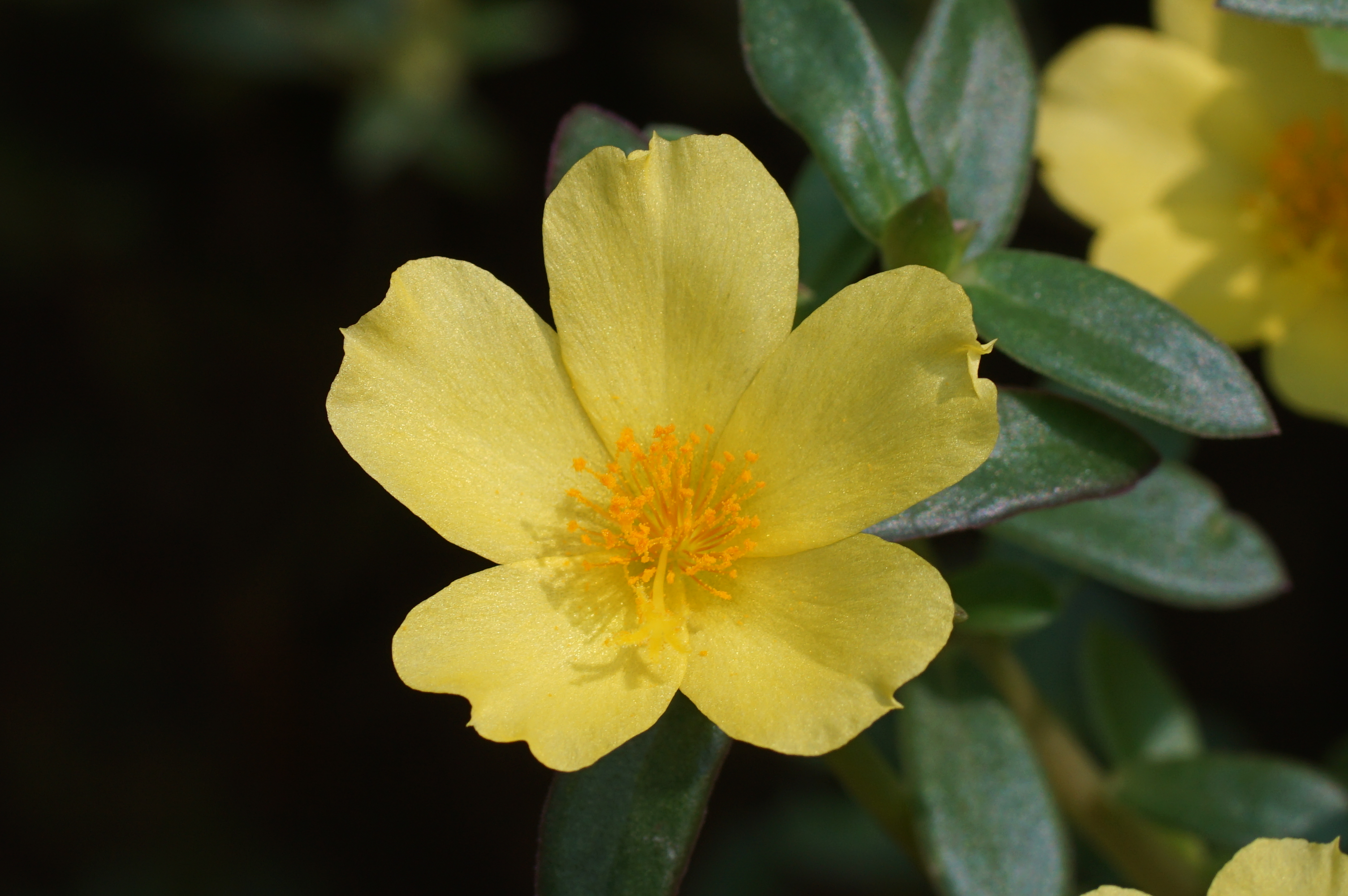 Portulaca oleracea